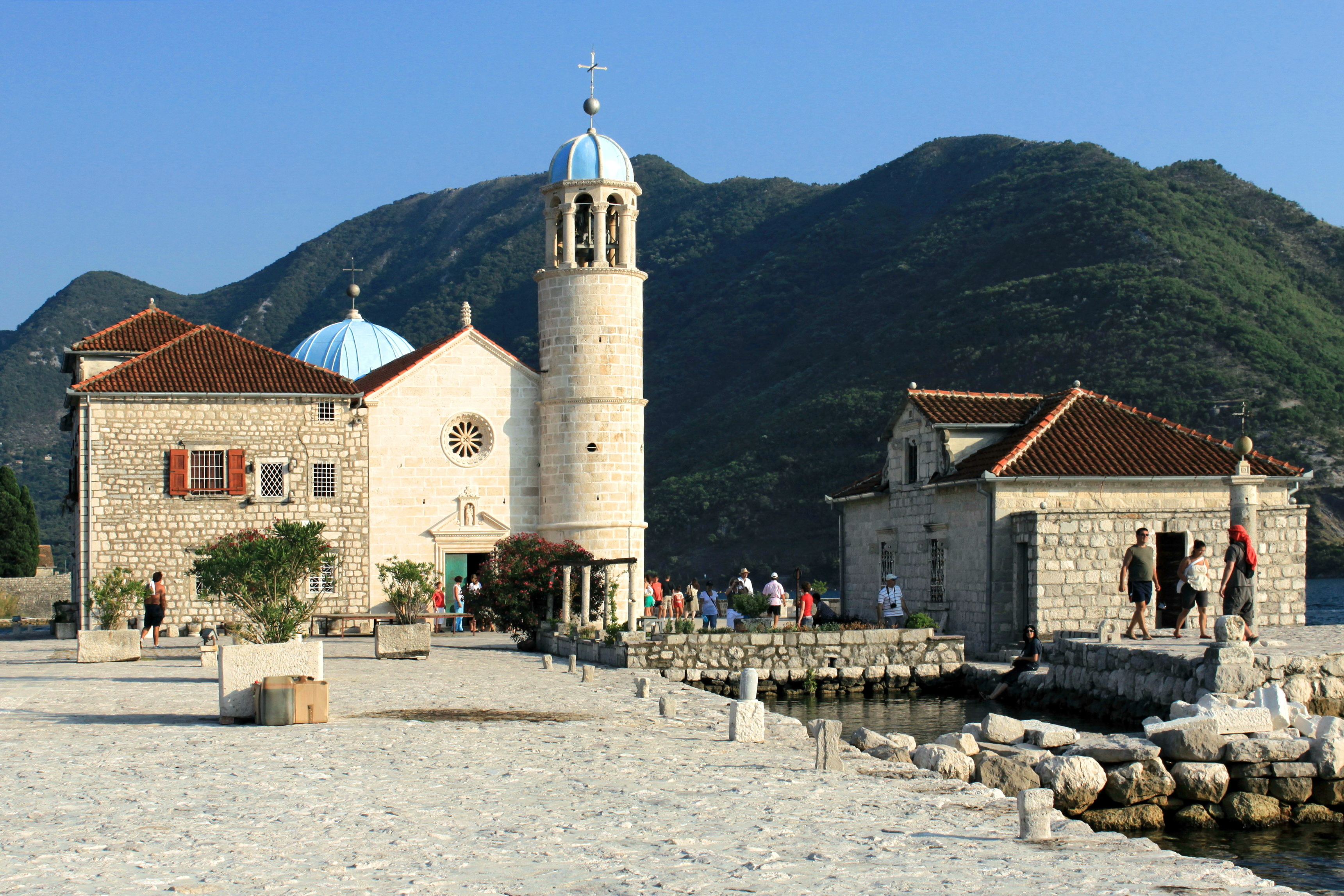 Gospa od Škrpjela (Our Lady of the Rocks islet). Perast, Montenegro.